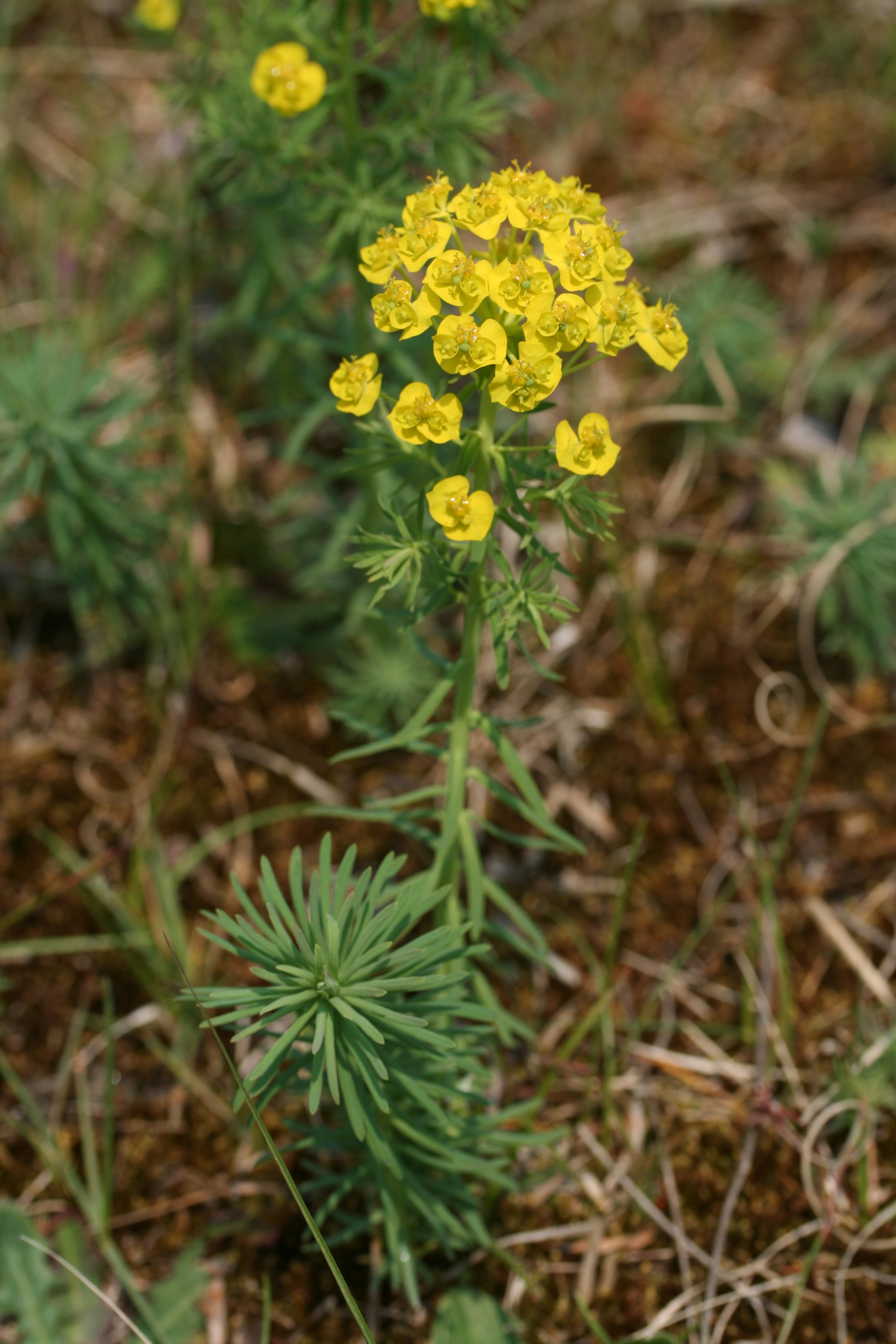 Euphorbia cyparissias 7 may 2006 IJmuiden, the Netherlands